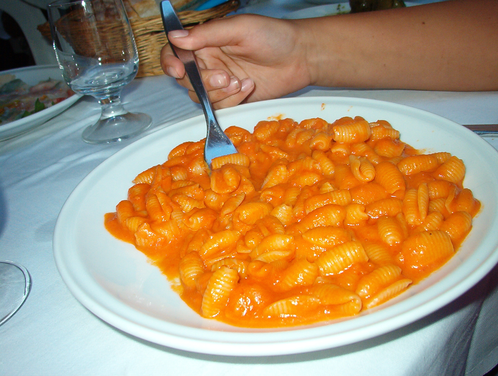 Cooked gnocchi, Modena